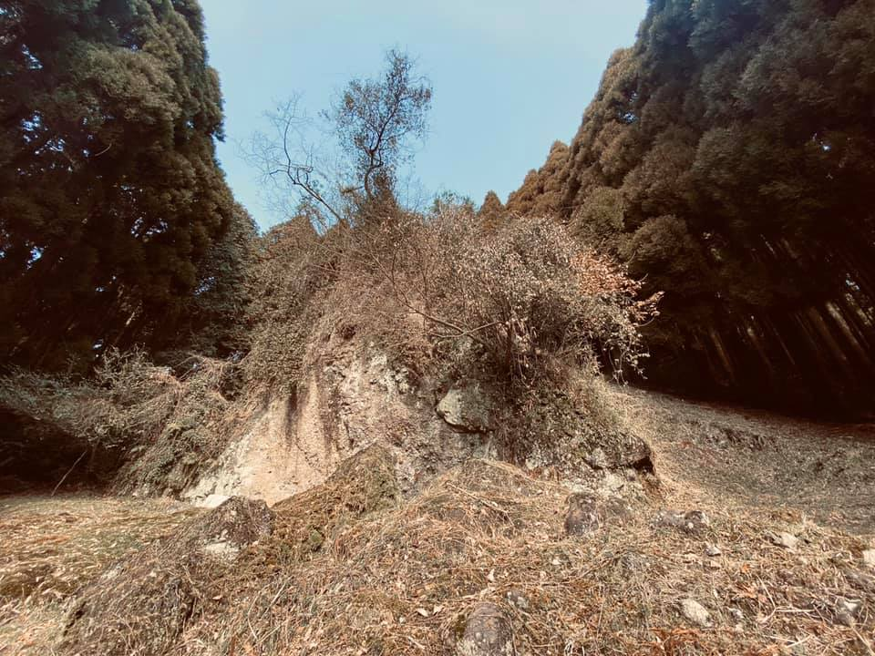 The target stone in Aso City, Kumamoto, believed to have been the practice target for Takeiwatatsu-no-Mikoto